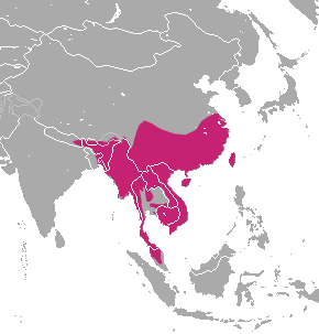 Crab-eating mongoose (Herpestes urva) range